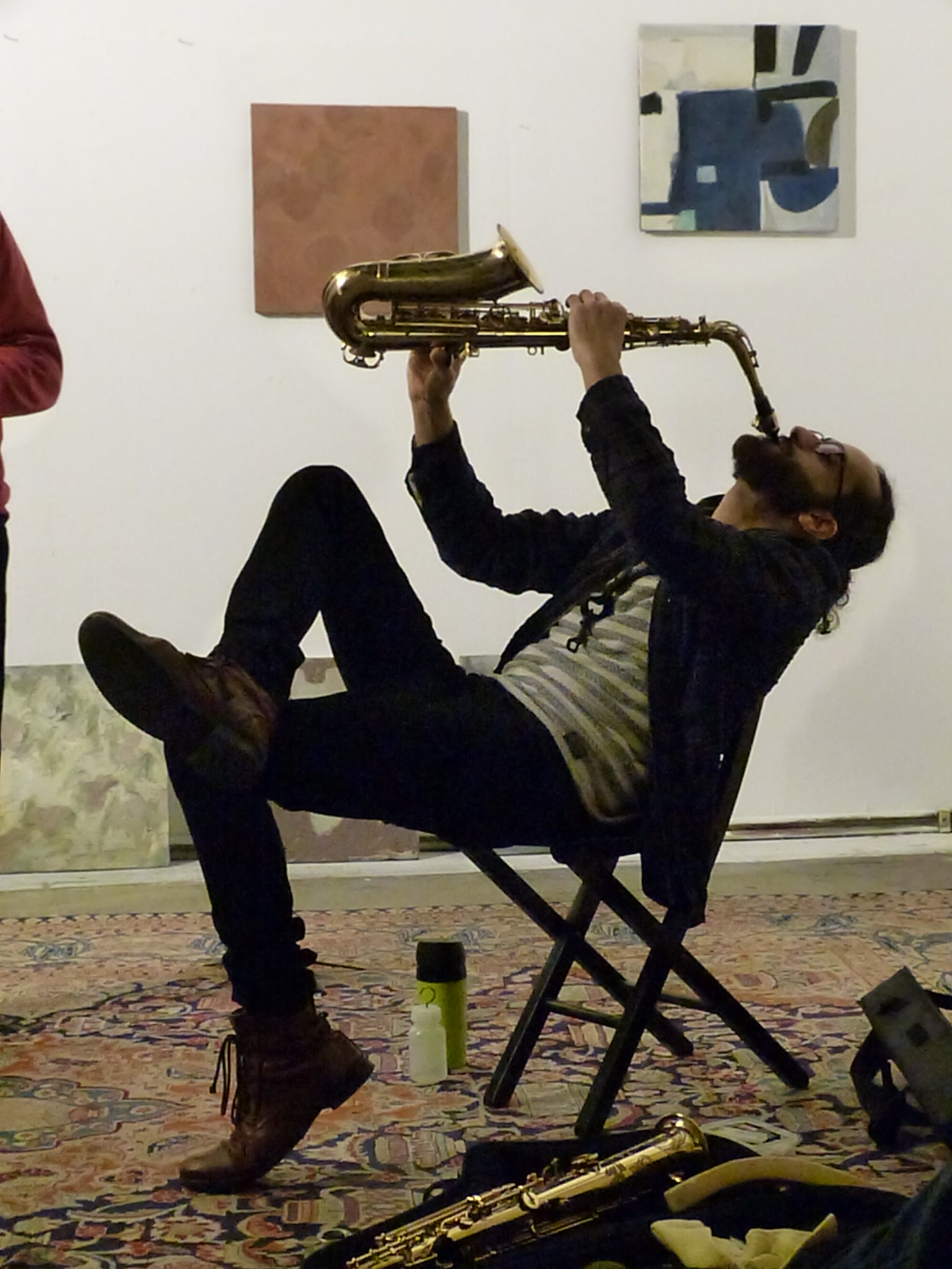 Salim Javaid (s) in the improvising concert "SOUNDTRIP NRW # 41", initiated by Carl Ludwig Hübsch, with Sofia Jernberg (voc) and Philippe Micol (s), October 28th, 2018 at Atelier Dürrenfeld/Geitel (Cologne), Germany